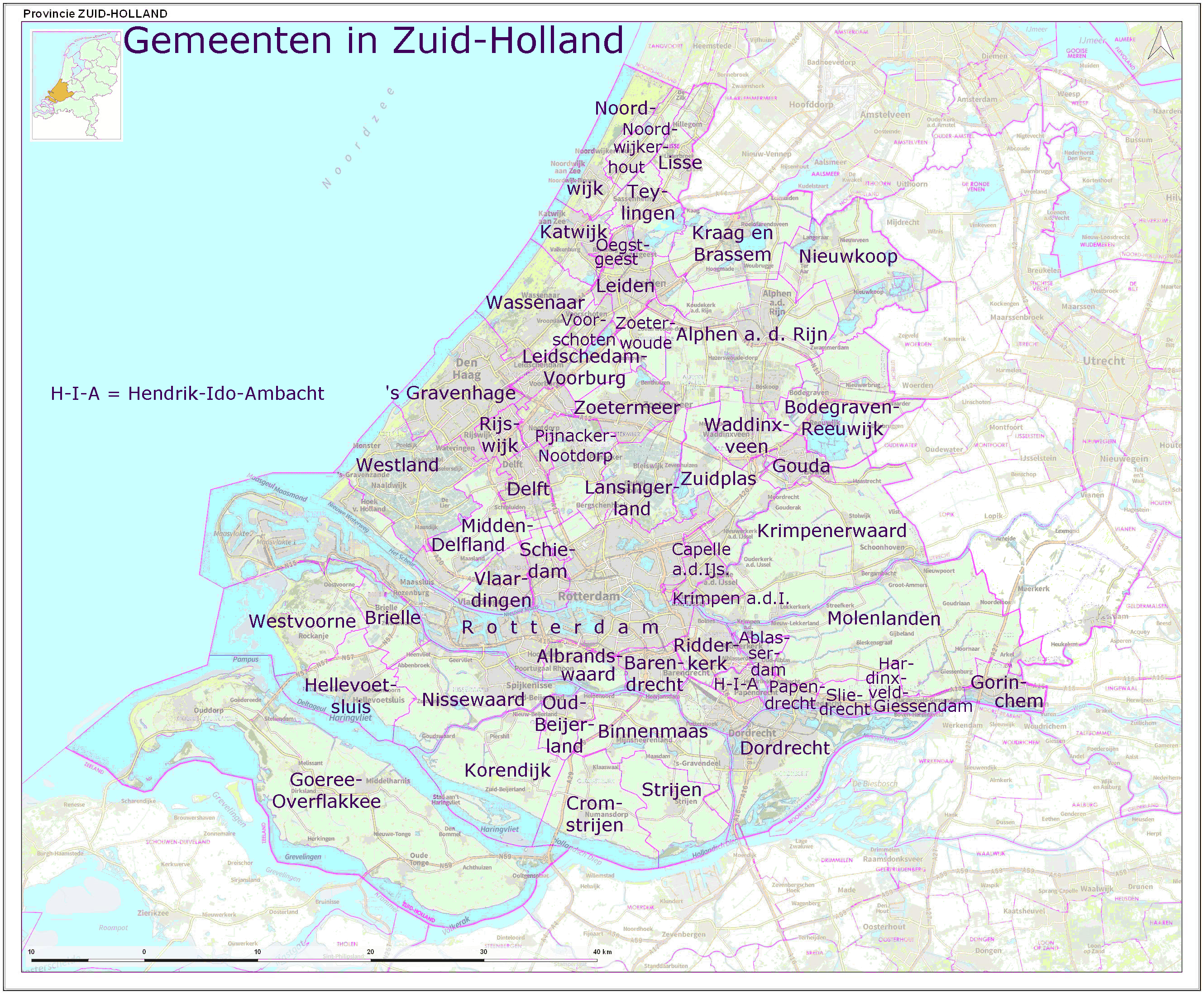 Toographic overview map of the Dutch Province of South Holland as of 2018. Compiled by Jan-Willem van Aalst using Dutch Governmental open data (CC-BY Kadaster) and OpenStreetMap data (CC-BY OpenStreetMap contributors).